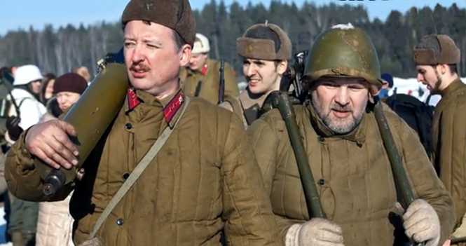 Red Army WW2 Reenacting.